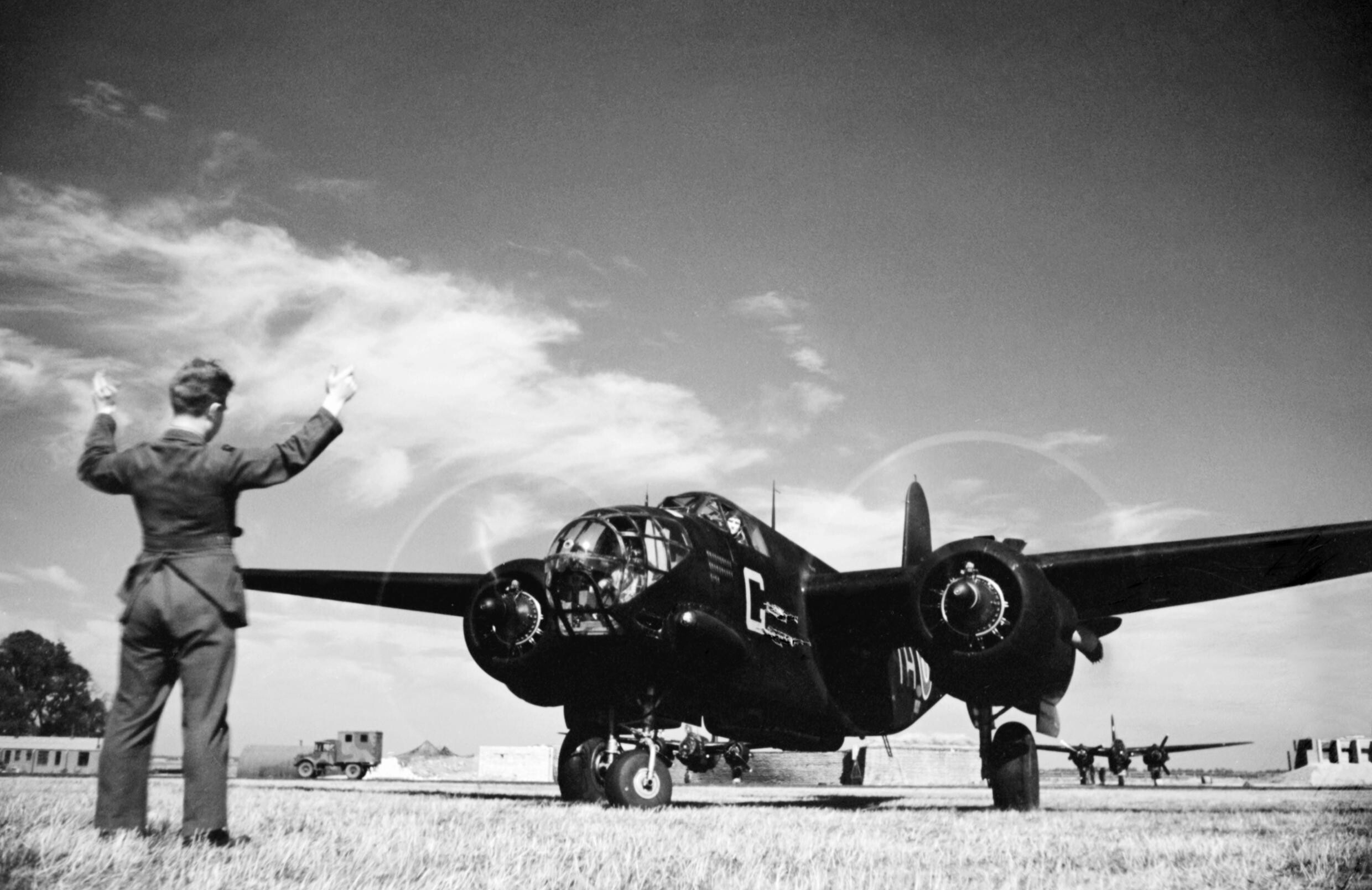 Douglas Boston Mk III aircraft of No. 418 Squadron RCAF taxiing at Bradwell Bay, Essex, prior to a night intruder raid over France, September 1942 In September 1942 No 418 Squadron, RCAF, was operating Boston IIIs on night intruder sorties from Bradwell Bay. Its usual targets were Luftwaffe airfields, the French railway system and occasionally factory buildings. The aircraft in the photograph carry ventral fuselage gun packs housing four 20mm cannon.